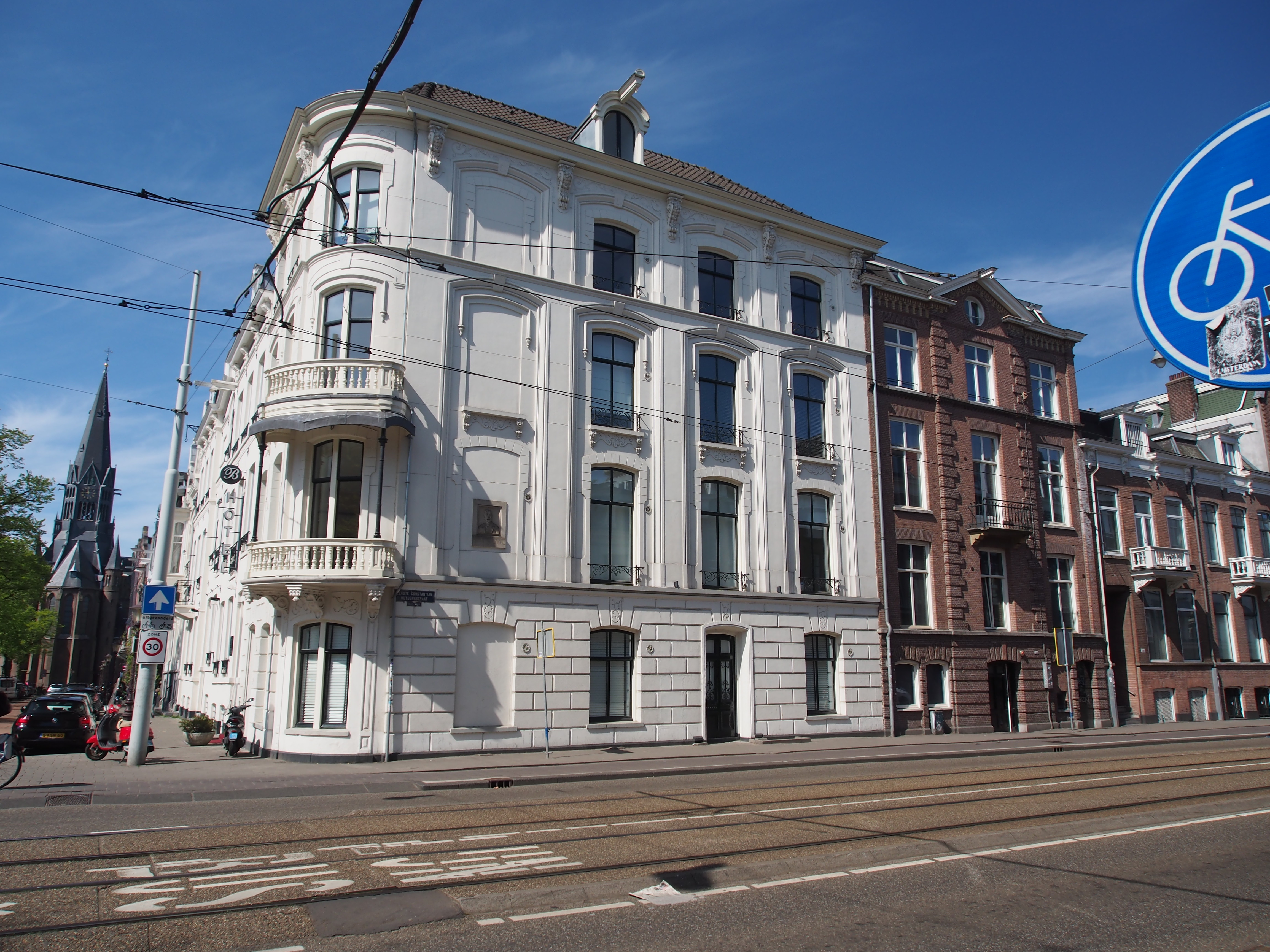 Photographed at Amsterdam, The Netherlands.